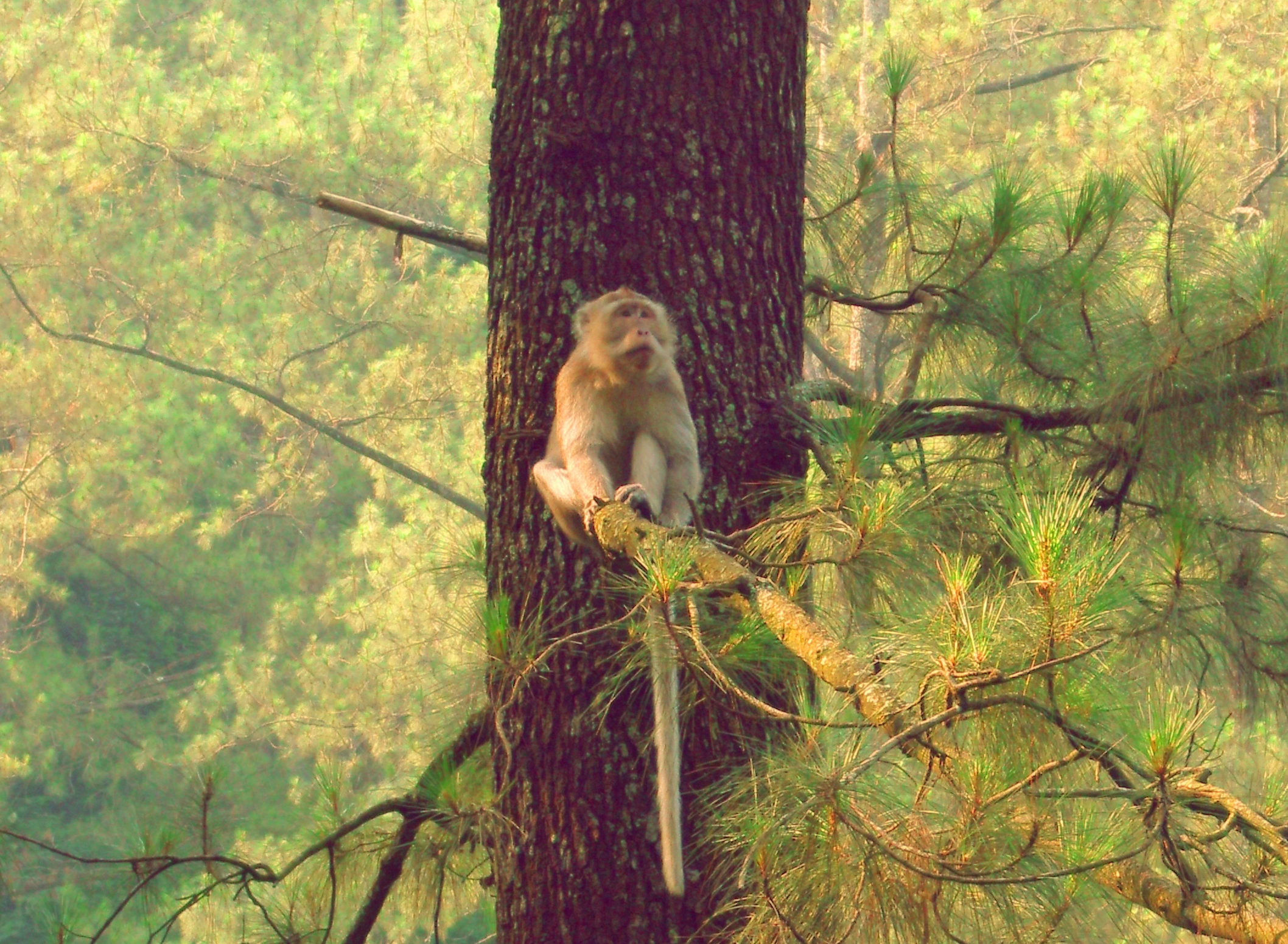 Macaca fascicularis is a primate native to Southeast Asia. They are considered as one of the sacred animals in some places including Bali Island. This photo was taken at Djuanda Forest Park, Bandung-Indonesia. It is one of the botanical and conservation parks in Indonesia. The area is around 590 hectares and the landscape height is around 770 to 1330 meters above sea level consisting approximately 2500 type of plants. Macaca fascicularis lives and plays among the pine trees which are the most vegetation tree at Djuanda Forest Park.